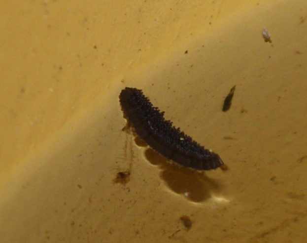 Egg raft of a mosquito, most probably of the genus Culex. Total length of the eggraft 7 millimetres (0.28 in). Picture taken in southern Germany. Mosquito eggrafts are often found in this this position at the rim of the water level.